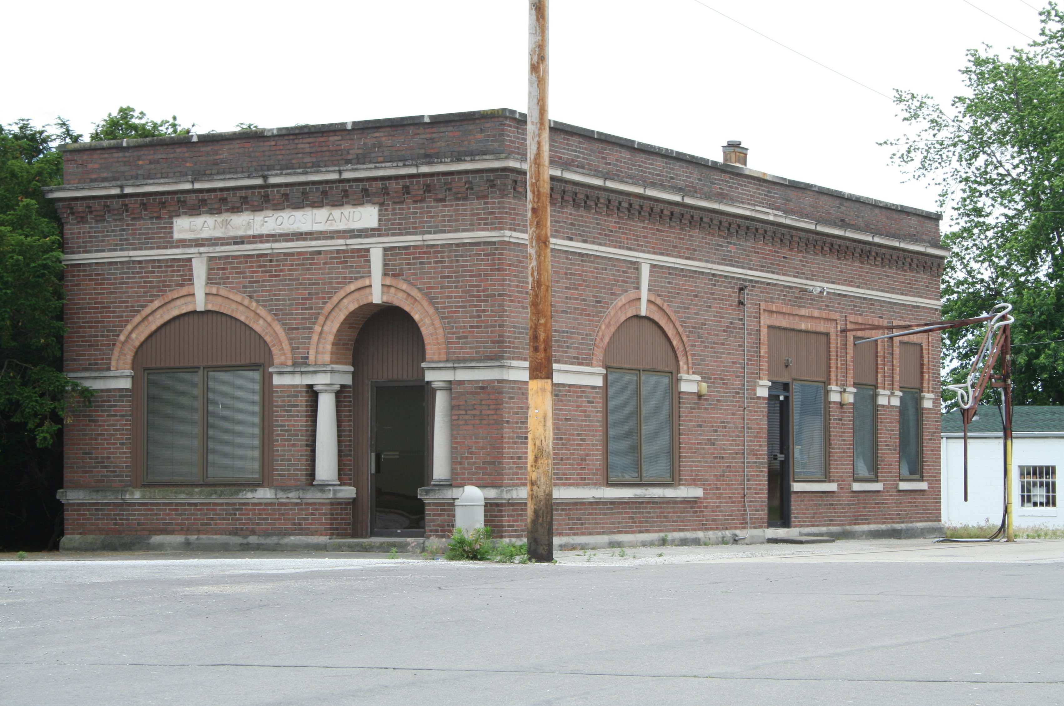 Former Bank of Foosland, Illinois, which closed prior to 1981. Then used as offices for a local Grain Company, building now in private use. Sits just North of the Post Office on the main road into town.